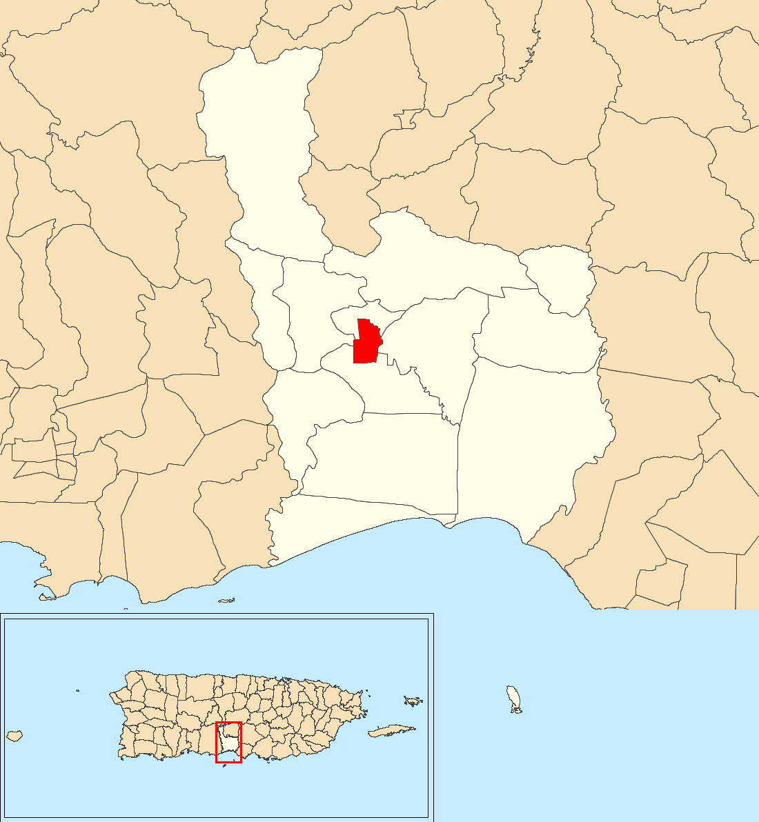 Juana Díaz barrio-pueblo, Juana Díaz, Puerto Rico locator map